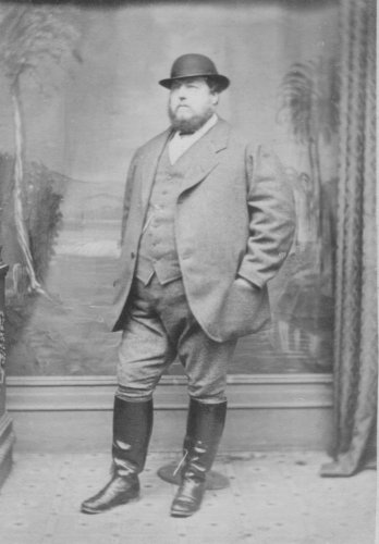 HENRY CHANDOS-POLE GELL of Hopton/second son of/EDWARD SACHEVERELL CHANDOS-POLE of Radborne/born Jan 10 1829 died Oct 31 1902/buried at Carsington/Succeeded to the Hopton Estate in 1842 and took the/surname and arms of GELL by sign manual in 1865